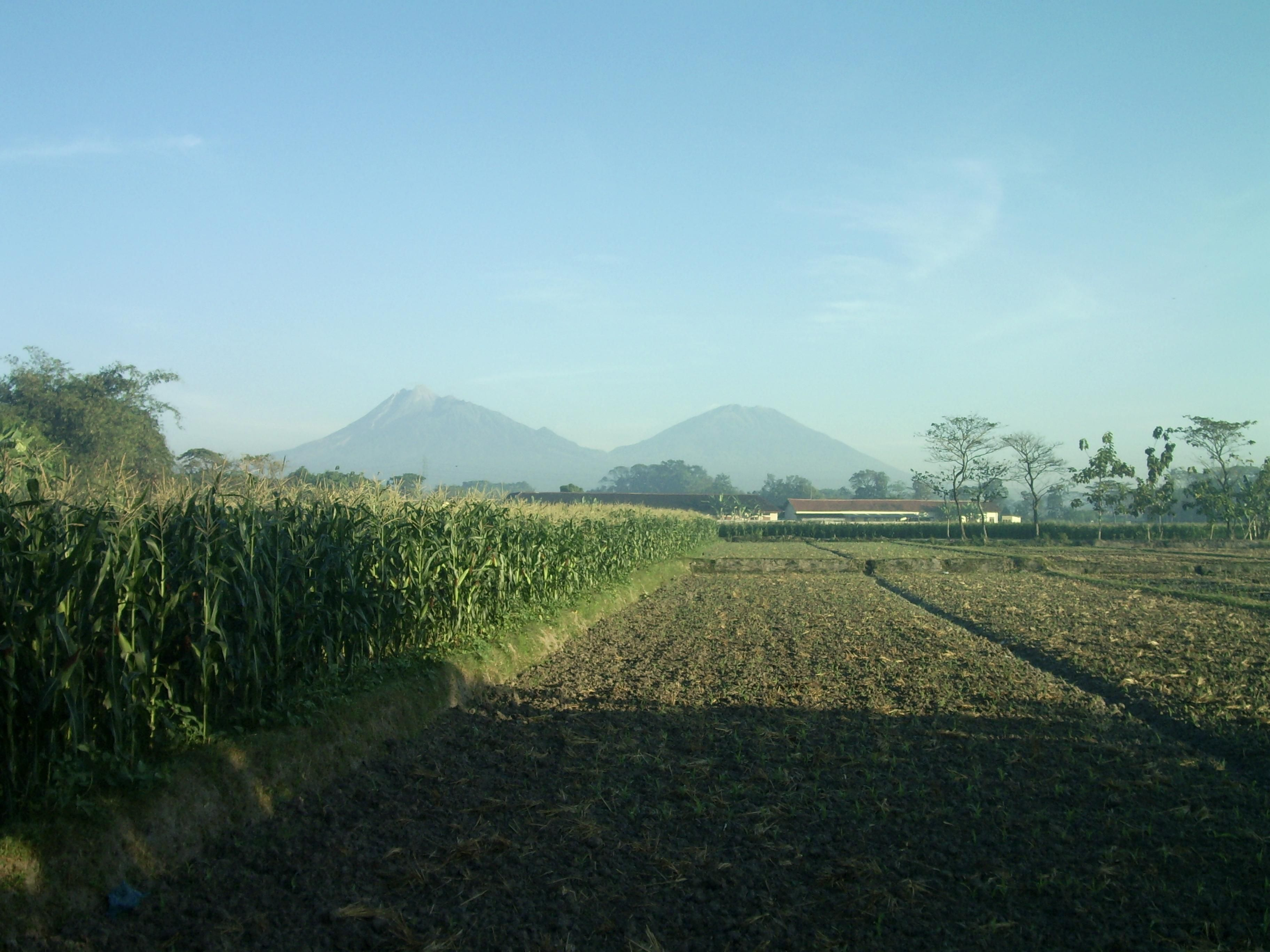 Scenery of Pokak